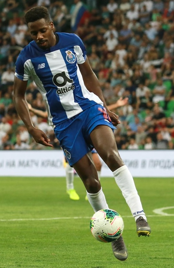 Wilson Manafá with FC Porto in a Champions League qualifier against FC Krasnodar.